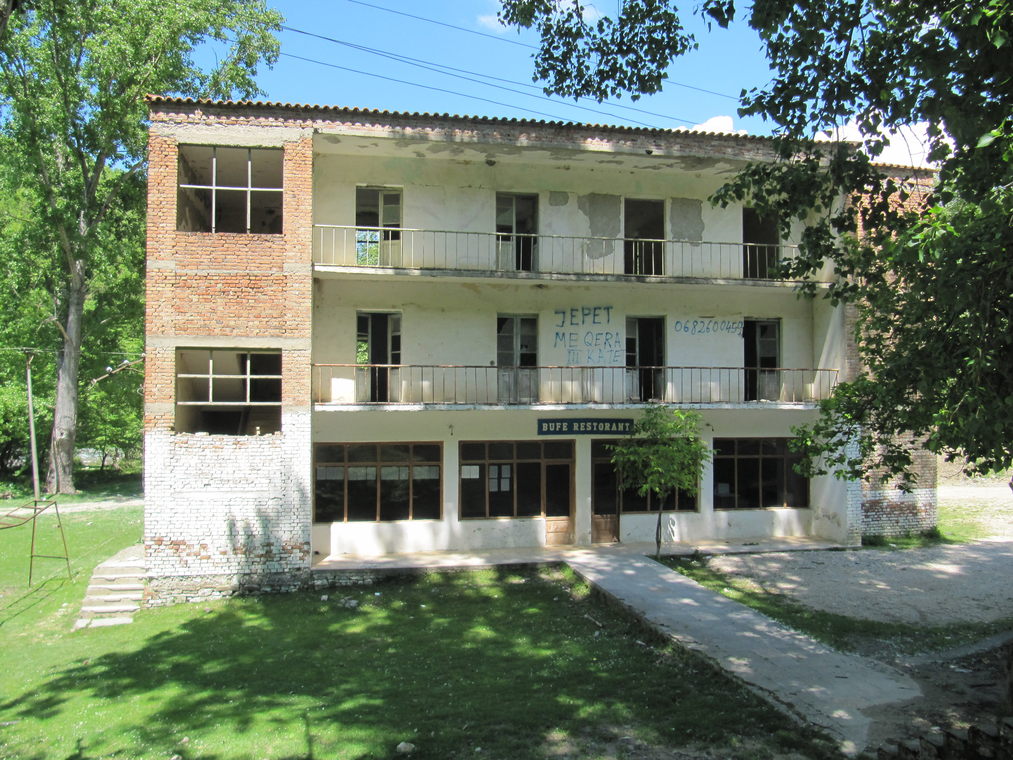 Ndërtesë e vjetër në Zall-Dajt